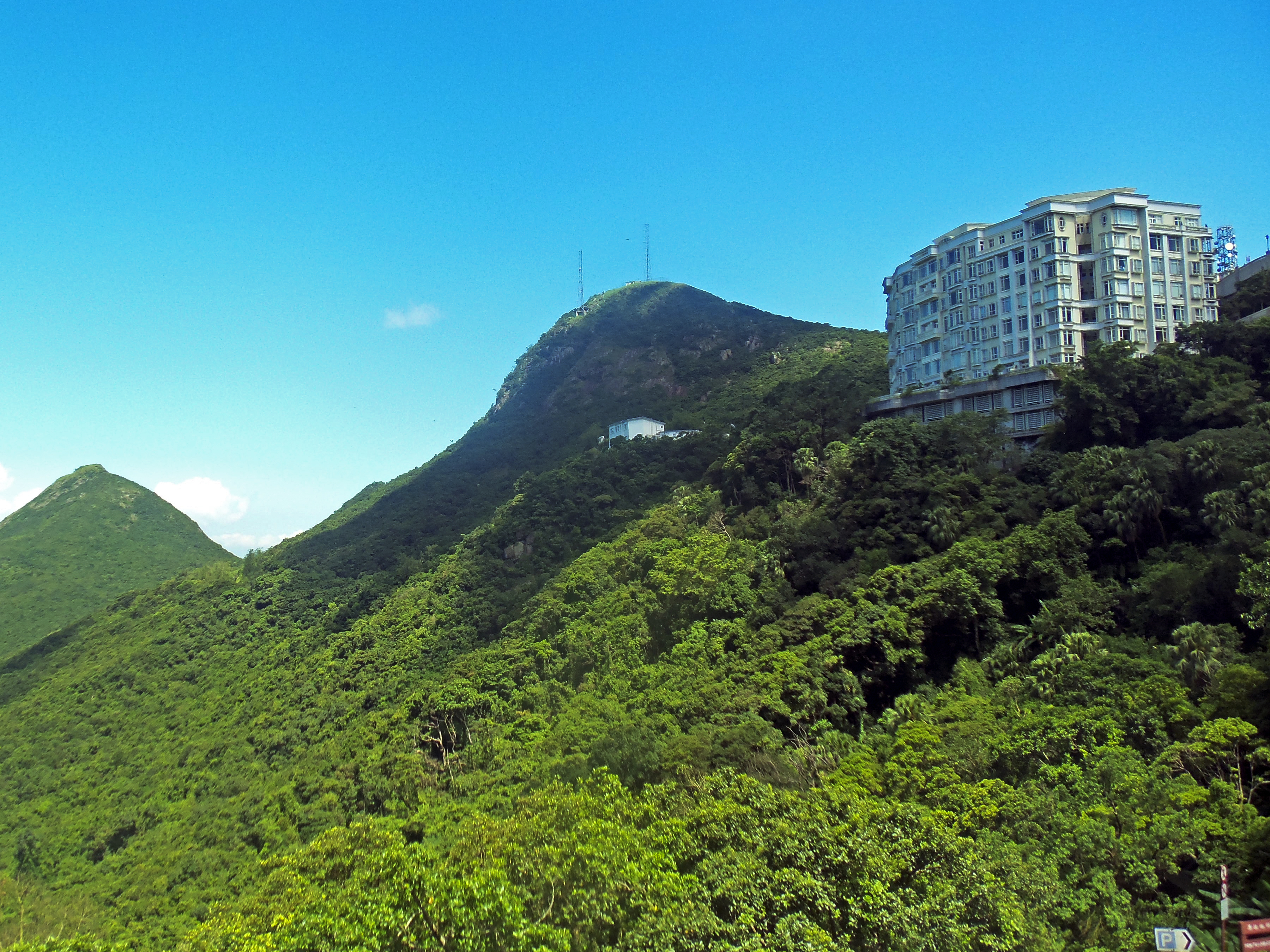 High West and Victoria Peak from Victoria Gap, Hong Kong